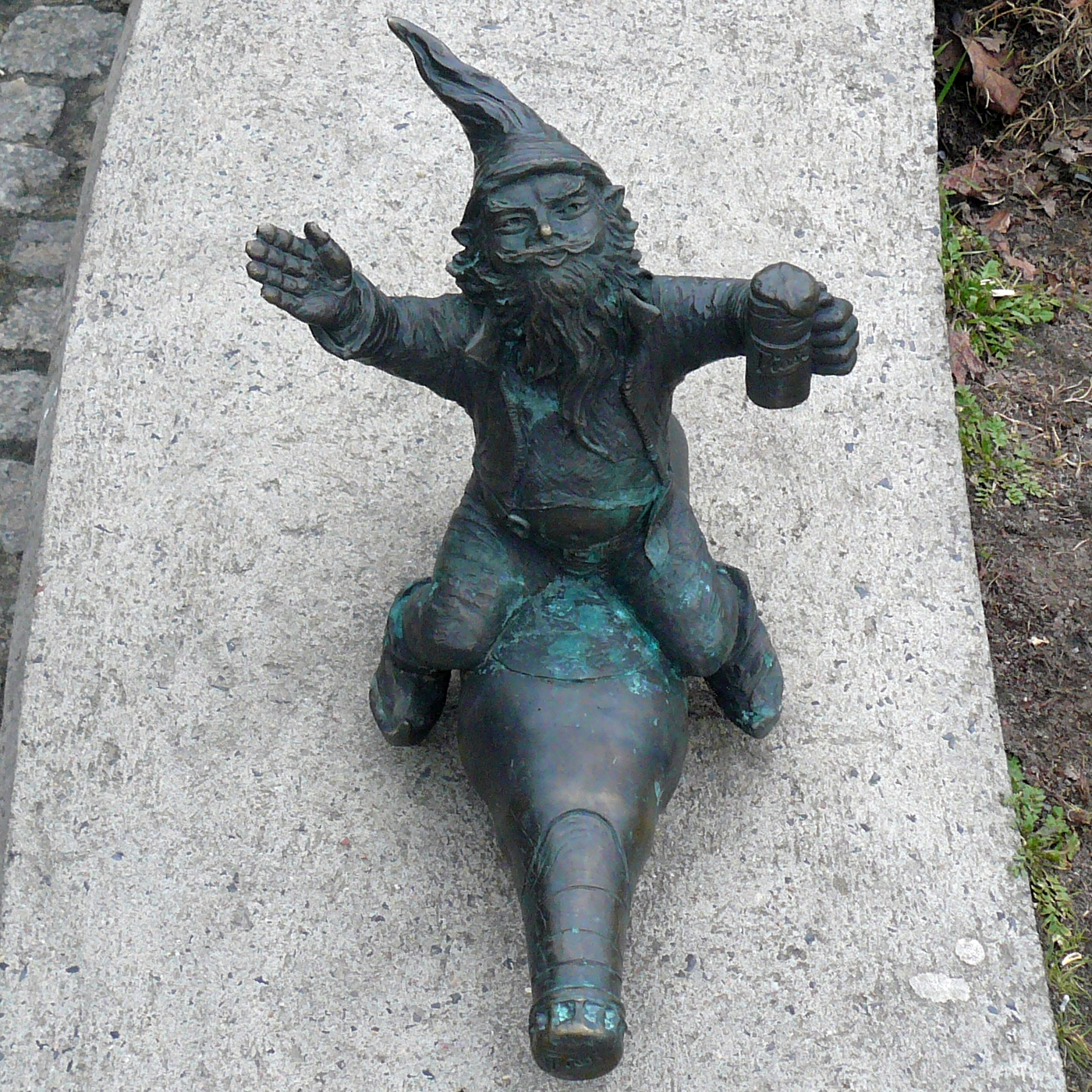 Dwarf in Wrocław